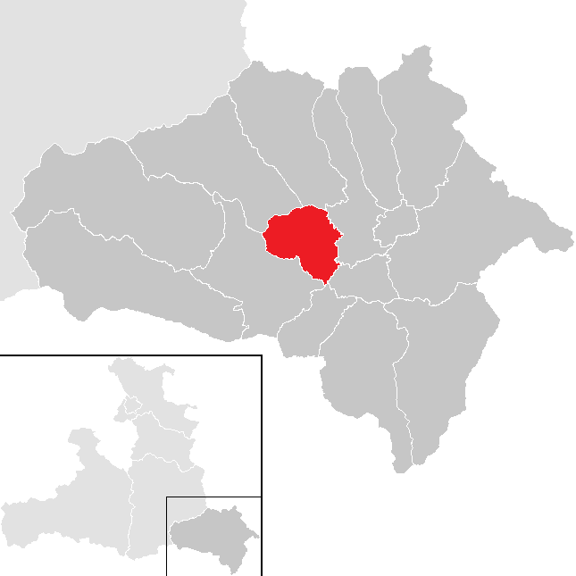 District Tamsweg